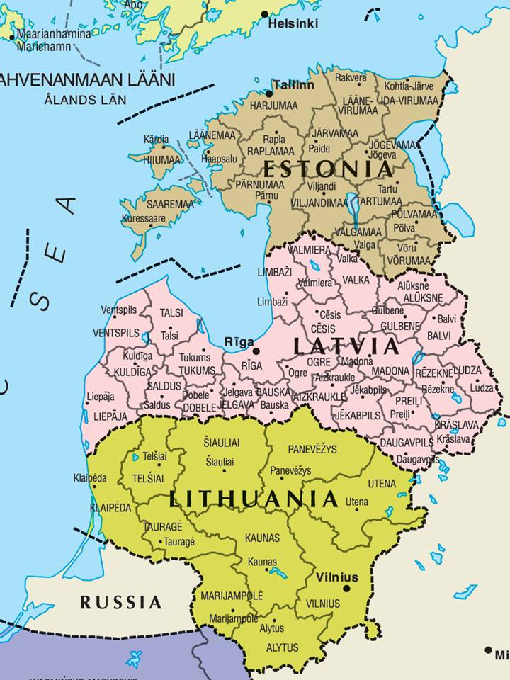 Baltic Map